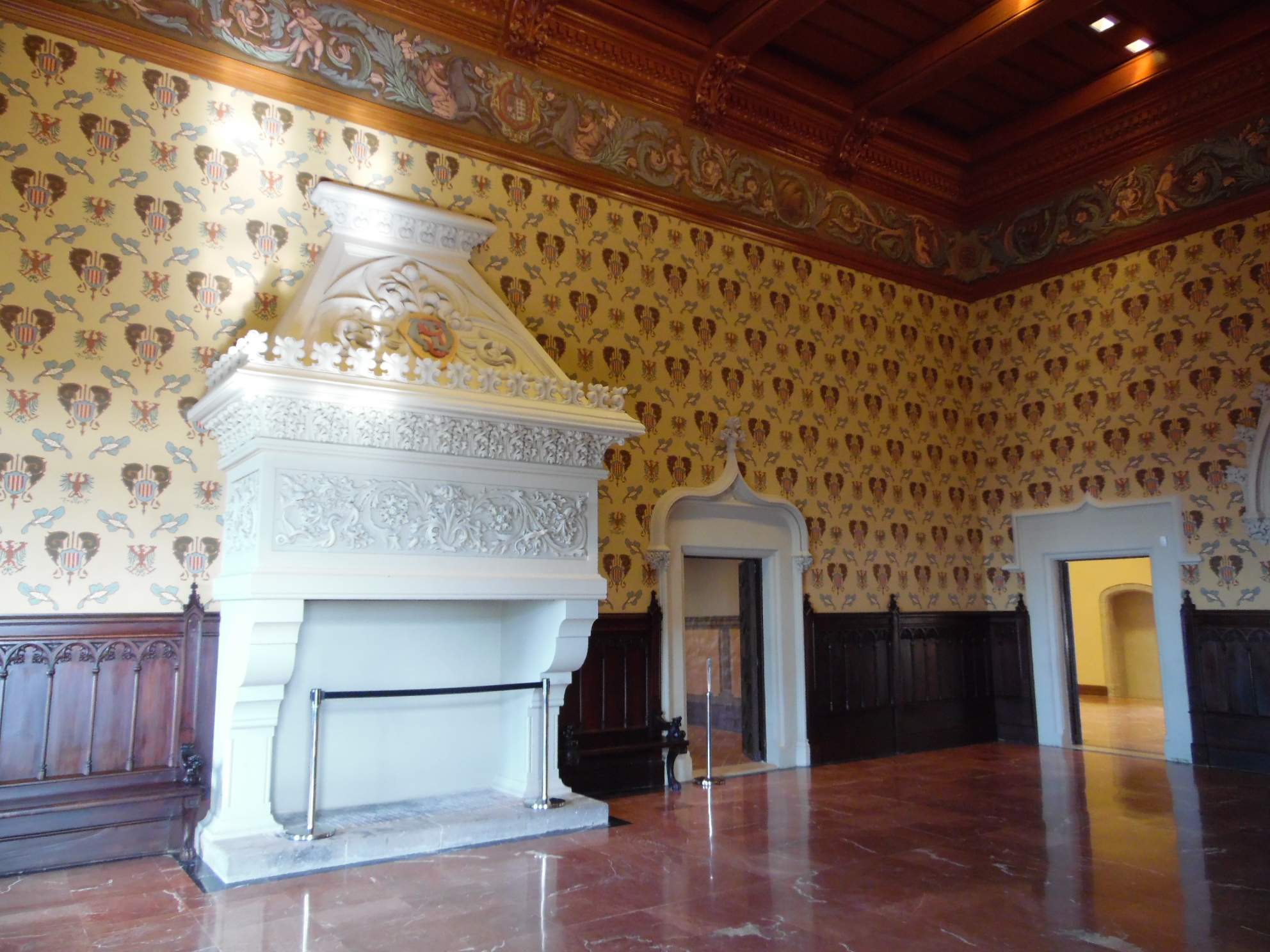 The castle of Castelldefels, Catalonia, Spain.